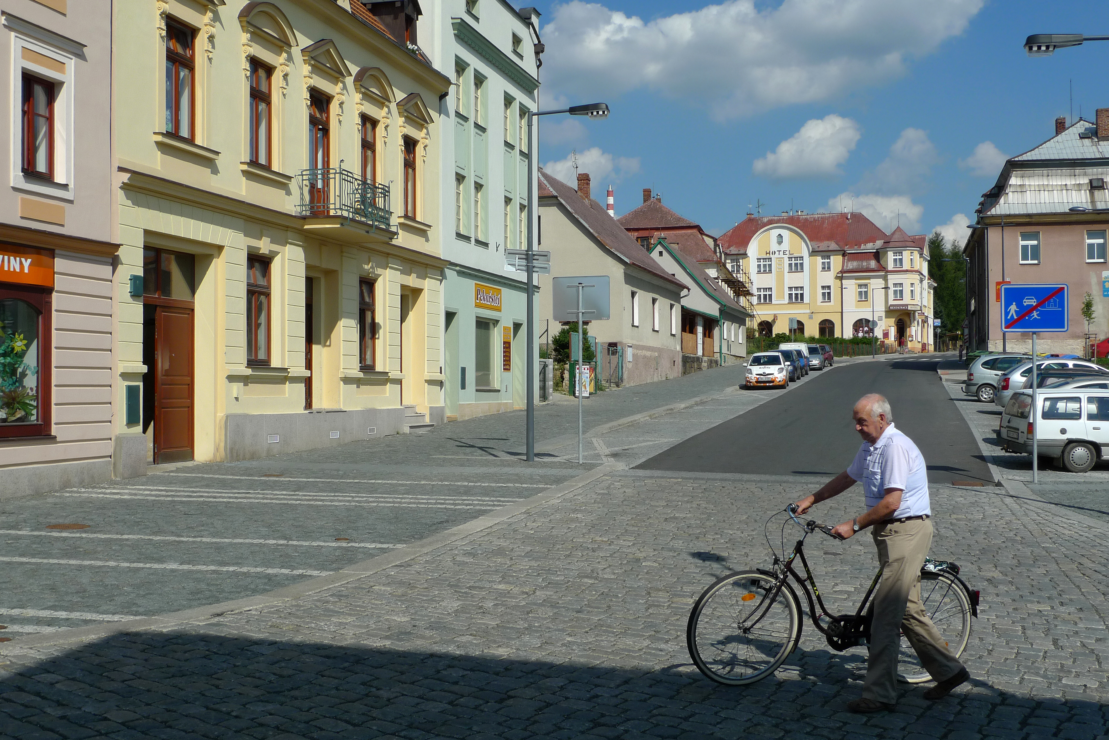 Upper Square in Hrádek nad Nisou, Czech Republic